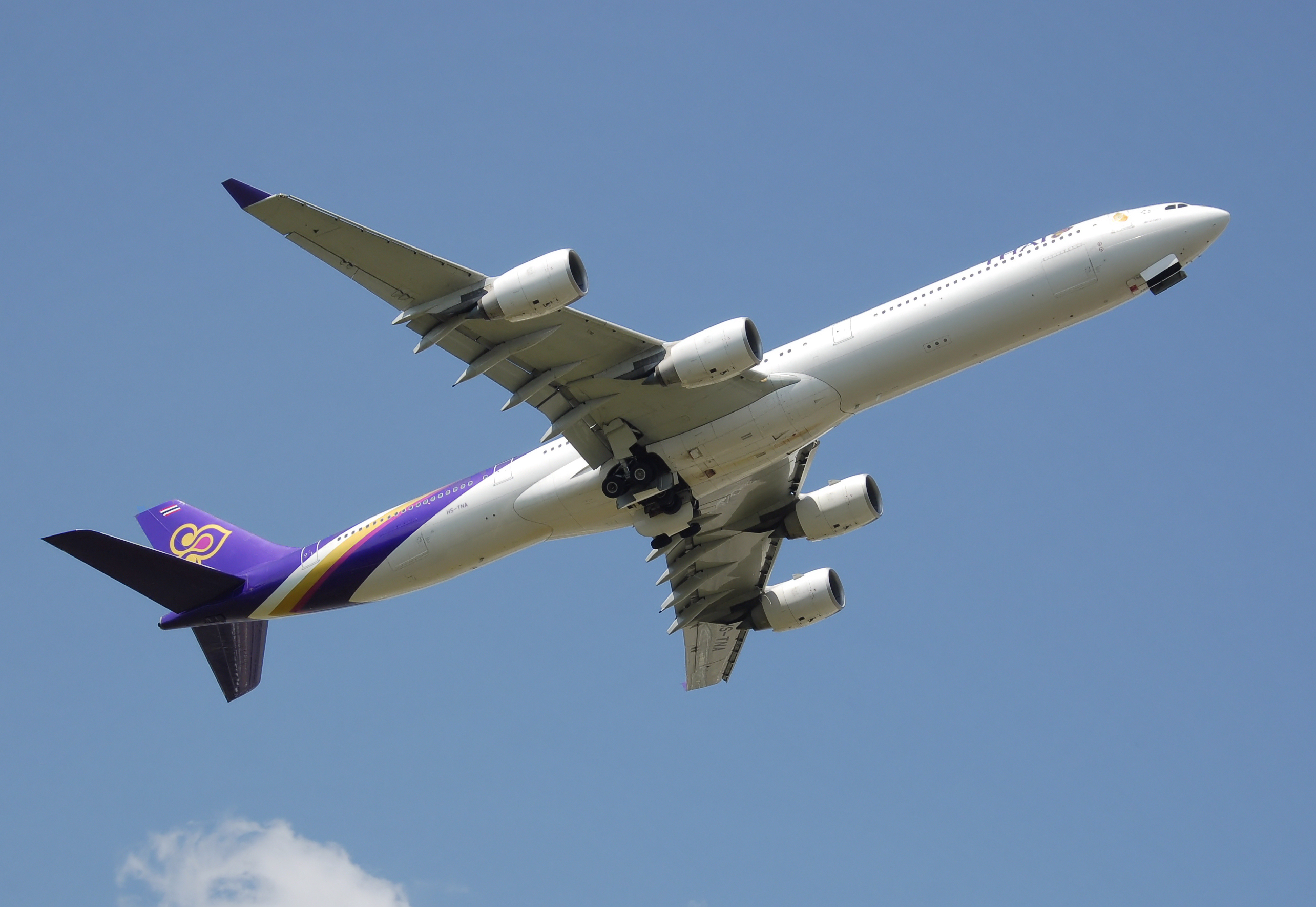 Thai Airways A340-600 (HS-TNA) takes off from London Heathrow Airport, England. The undercarriages are still retracting.